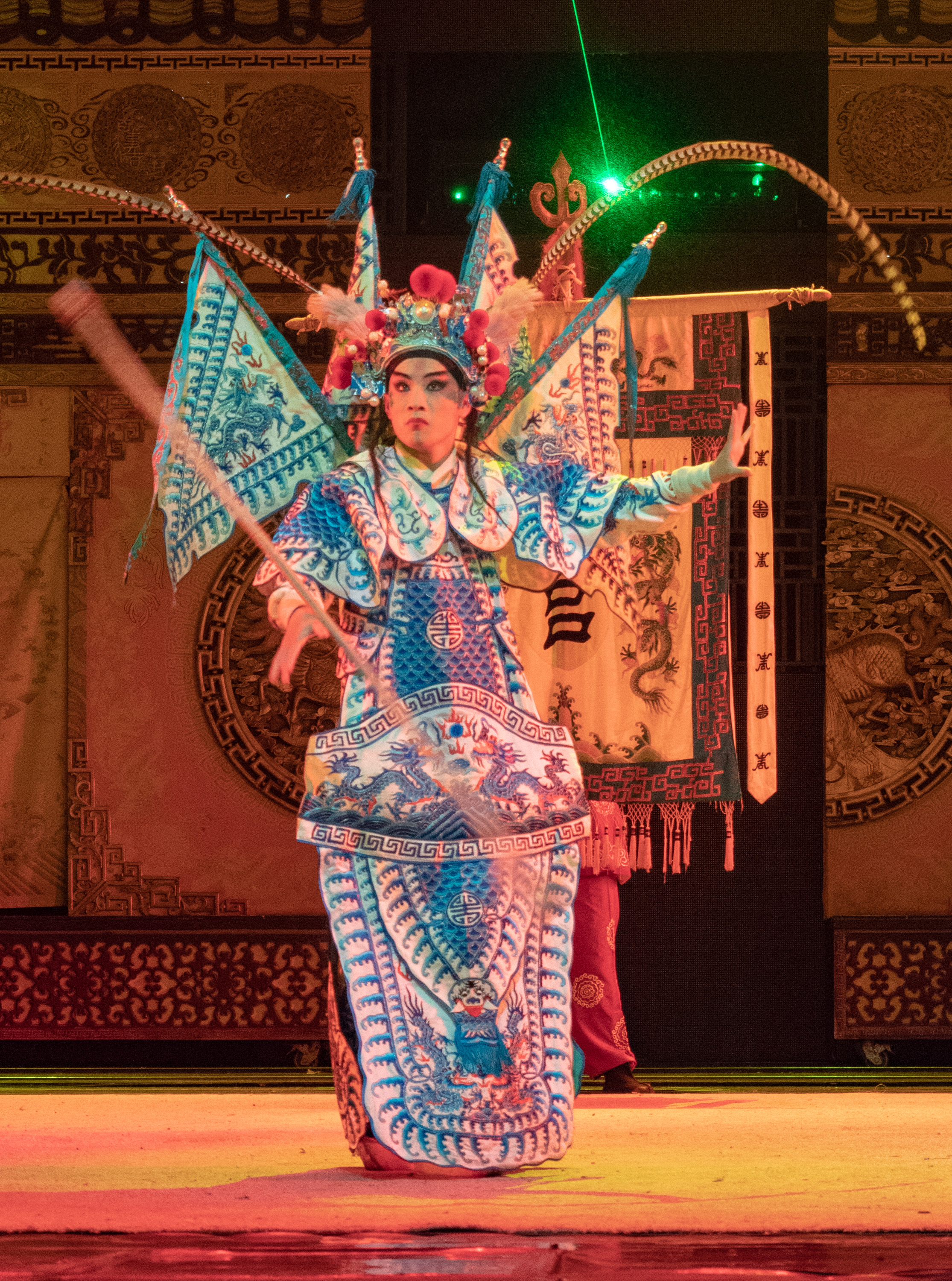 35678-Chengdu